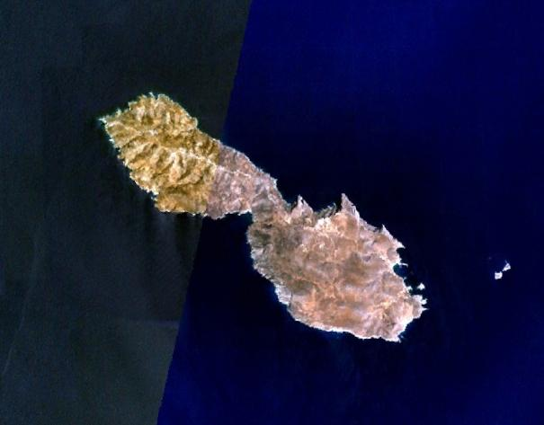 Satellite photo of island Folegandros from the space